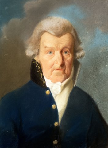 Portrait of Johann Christoph Brotze